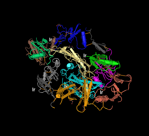 The Structure Of The Follistatin:activin Complex